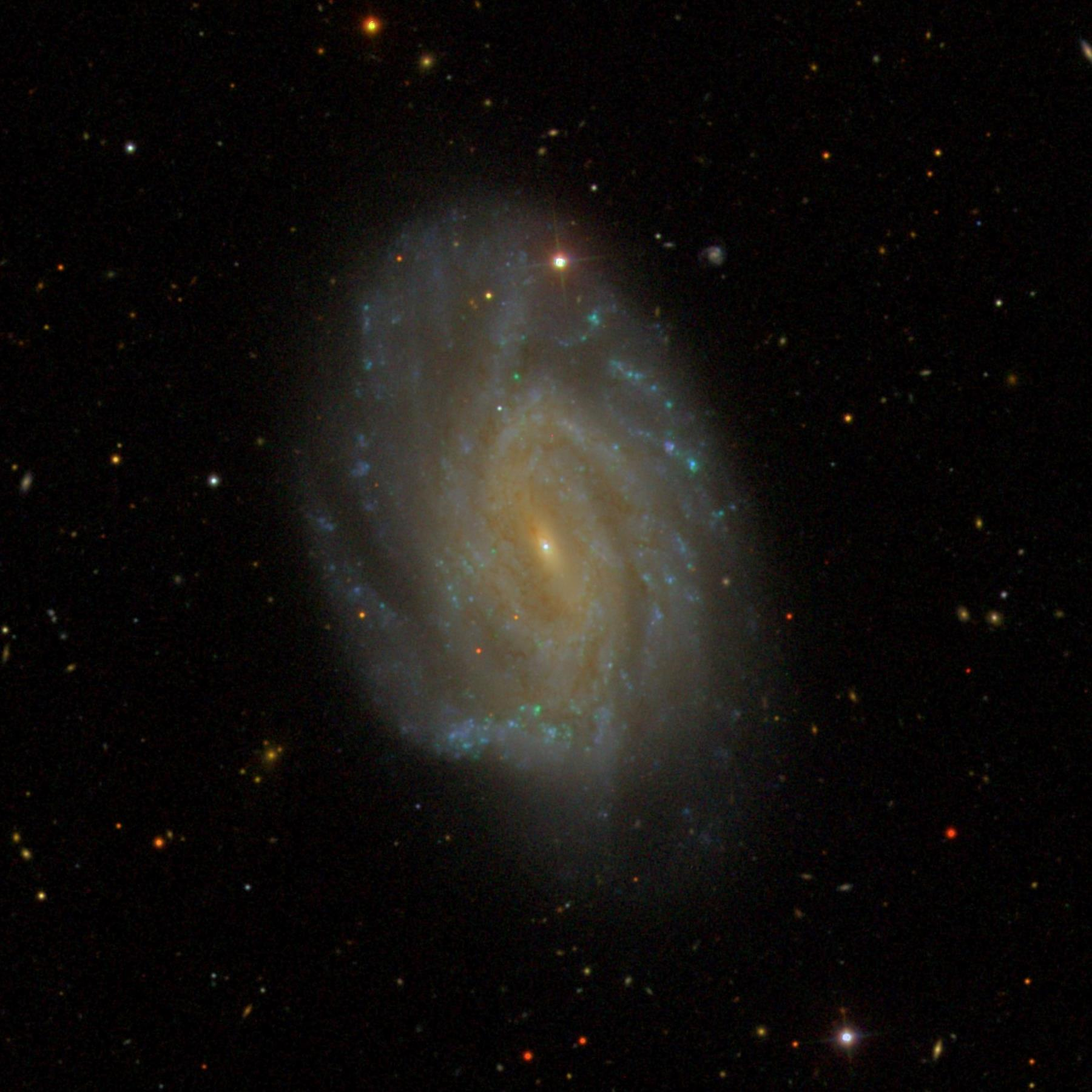 Angle of view: 9' × 9' (0.3" per pixel), north is up.